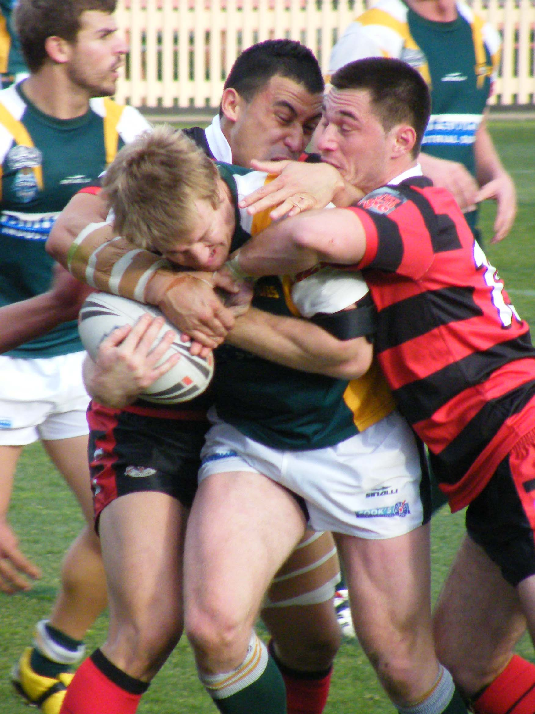 Windsor Wolves second rower Shane Rodney is well and truely tackled by North Sydney defenders.